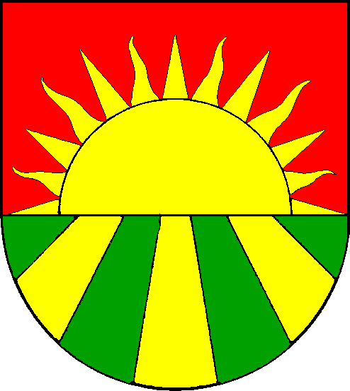 Coat of arms of the municipality Ostenfeld (Rendsburg) in Schleswig-Holstein, Germany.